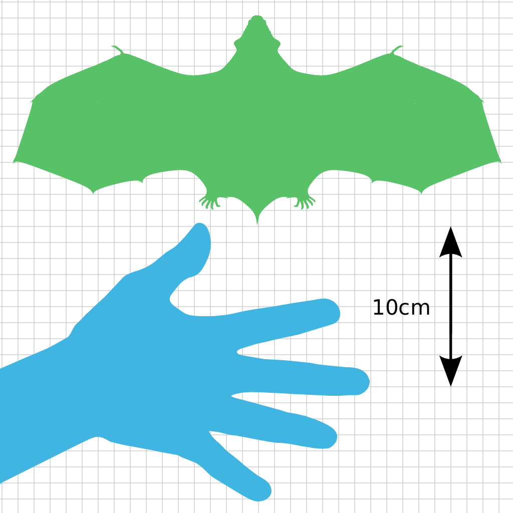 Scale comparison of Palaeochiropteryx (25 to 30 cm) in comparison to an average adult male human hand (18.9 cm). Inspired by scale drawings by User:Dinoguy2. Whose arrows I used. :P Hand is from File:Hand.svg by User:Kenny sh. Everything else is my own work.